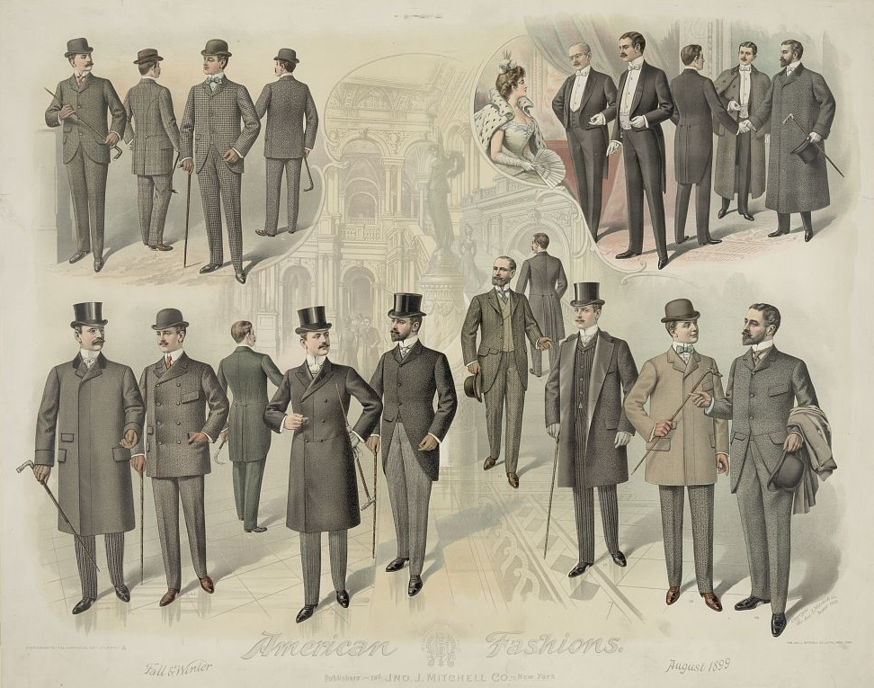 Color lithograph print showing men posed wearing fall and winter business and theater fashions with overcoats and hats, against a backdrop of an interior view of the recently opened Library of Congress Thomas Jefferson Building. Supplement to "The Sartorial Art Journal."